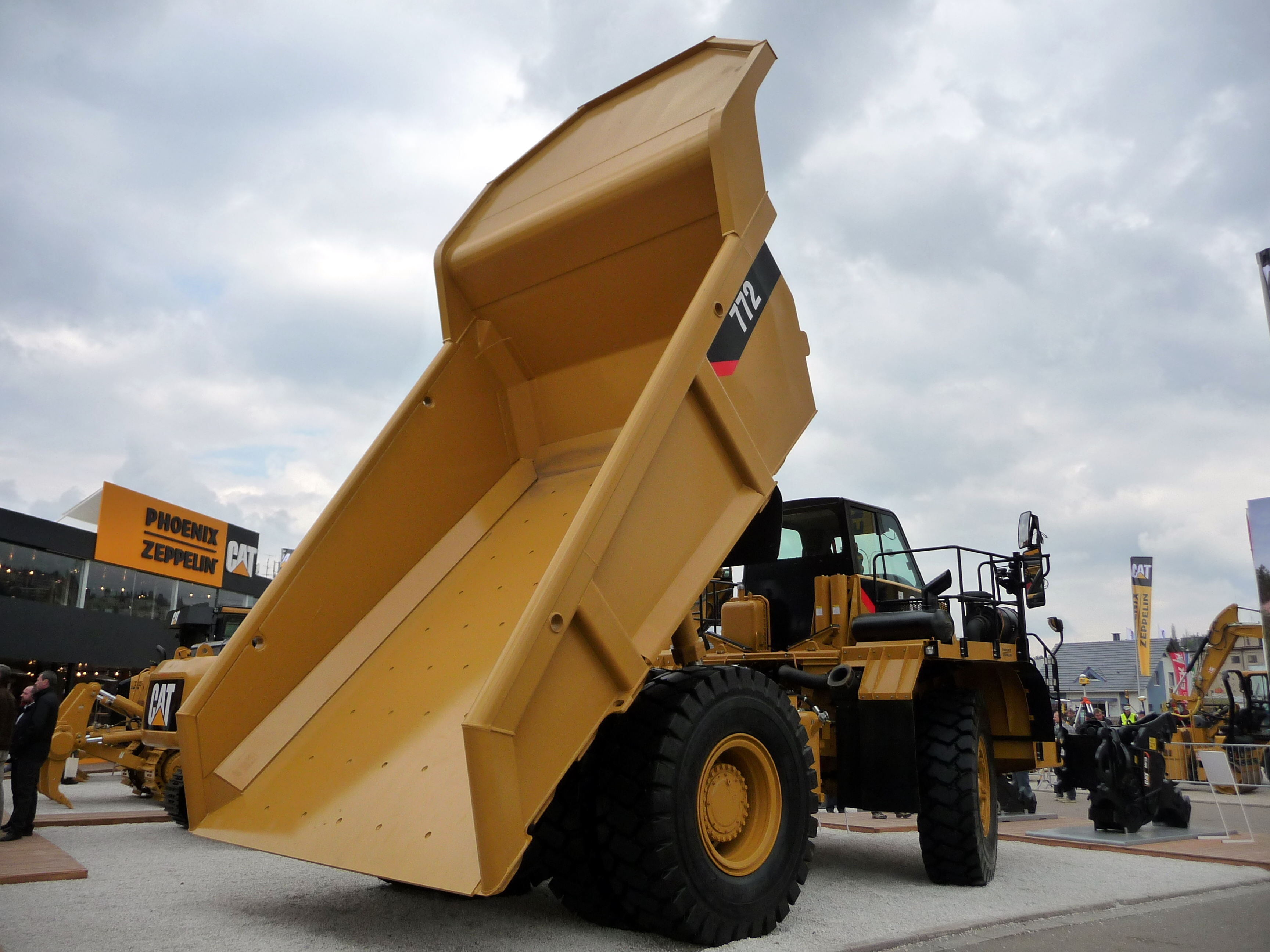 Caterpillar 772 Off-Highway Dump Truck in exposition Phoenix-Zeppelin, Building Fairs Brno 2011 -10-5-3-2◄►+2+3+5+10